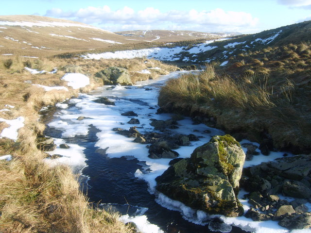 Crookdale Beck Frequent sightings of Red Deer above the beck but no sign of other walkers today.